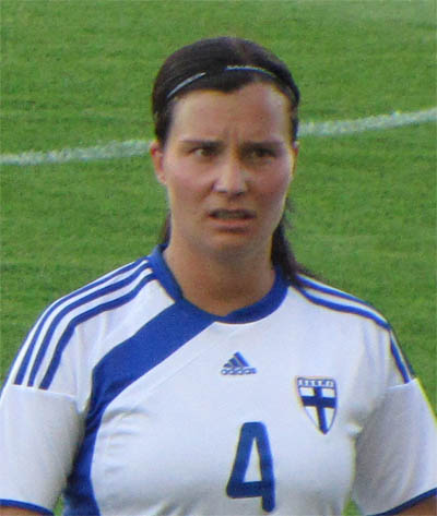 Sanna Valkonen during Finland - Northern Ireland friendly match.